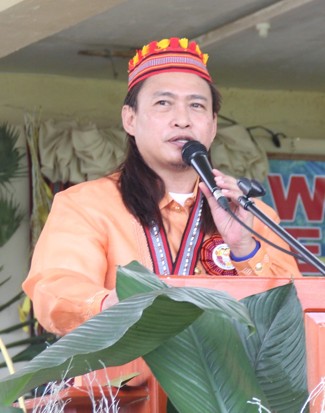 Ifugao Congressman Teddy Baguilat, Jr. calls all Ifugaos to help in the protection and preservation of the rich cultural heritage of the province for the benefit of the future generation during the province's 50th founding anniversary.